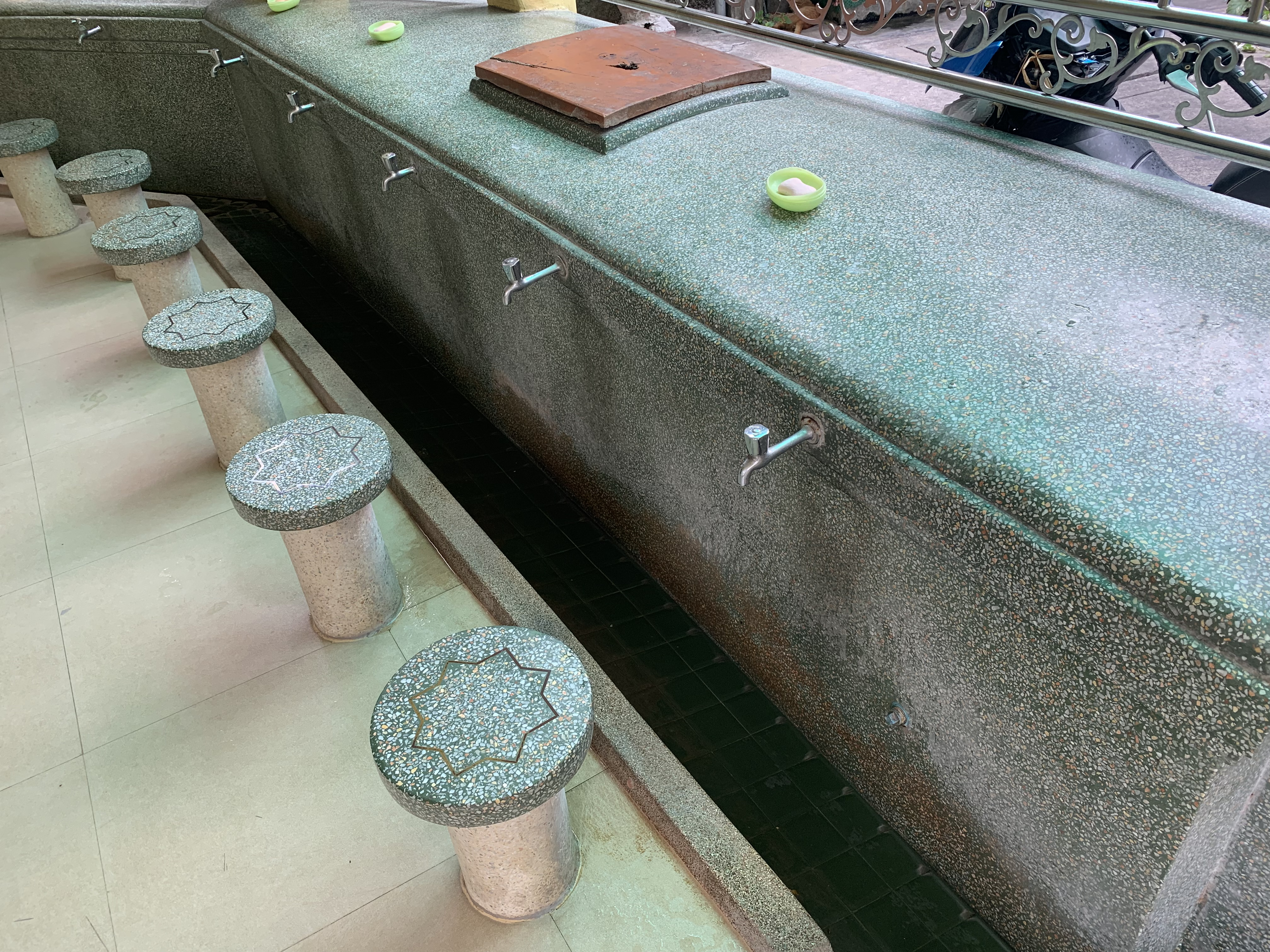 Chakraphong Mosque, Bangkok